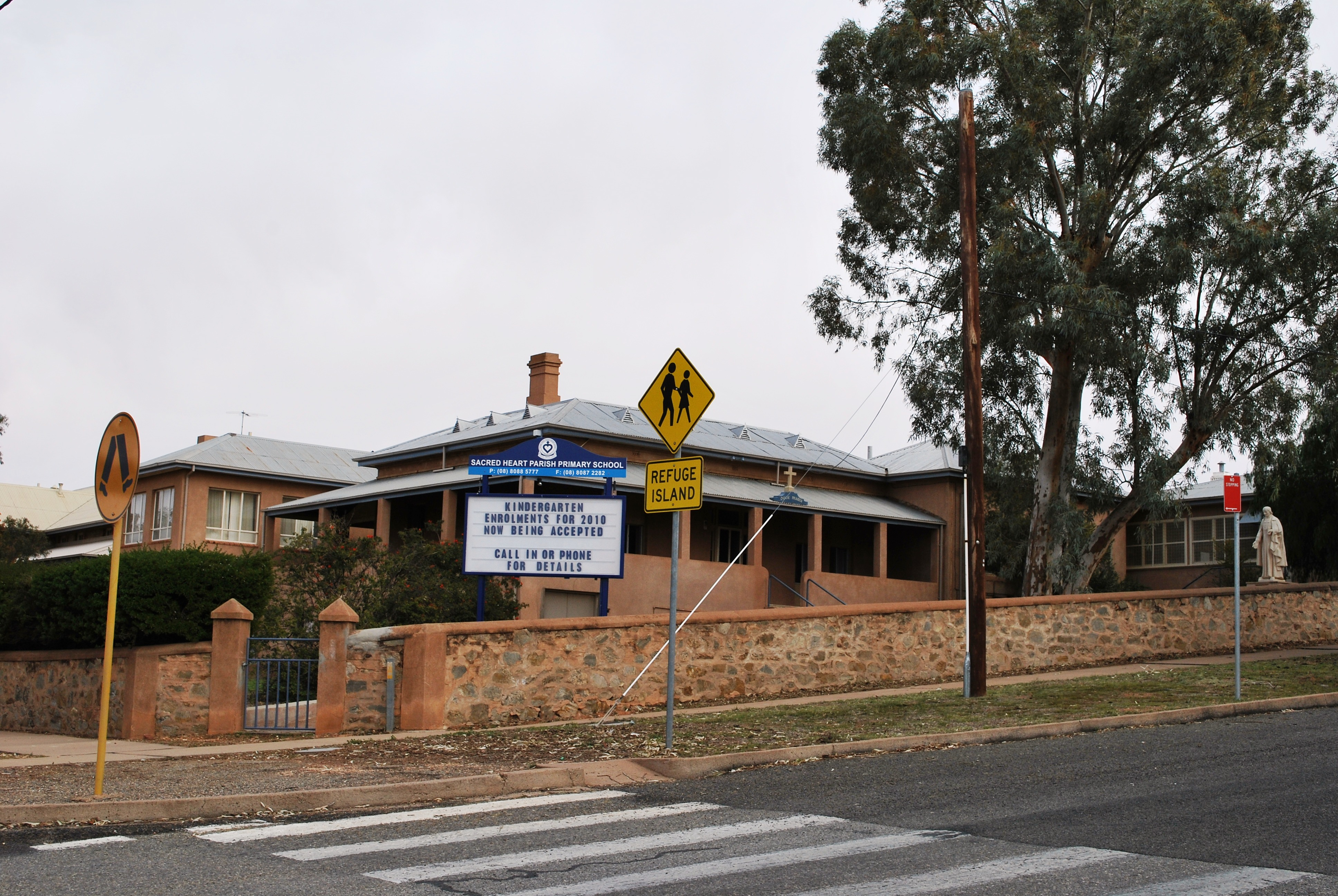 Sacred Heart Parish primary school in Broken Hill, New South Wales